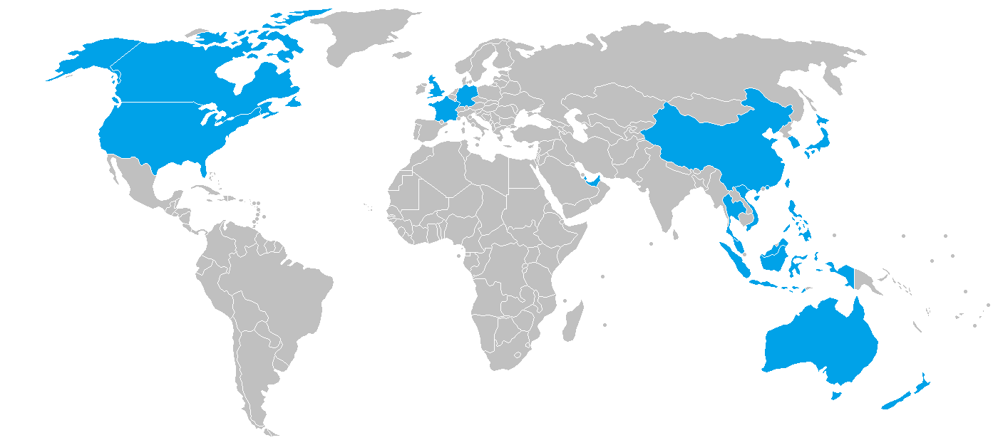 Tokyo-Haneda International airport passenger destinations